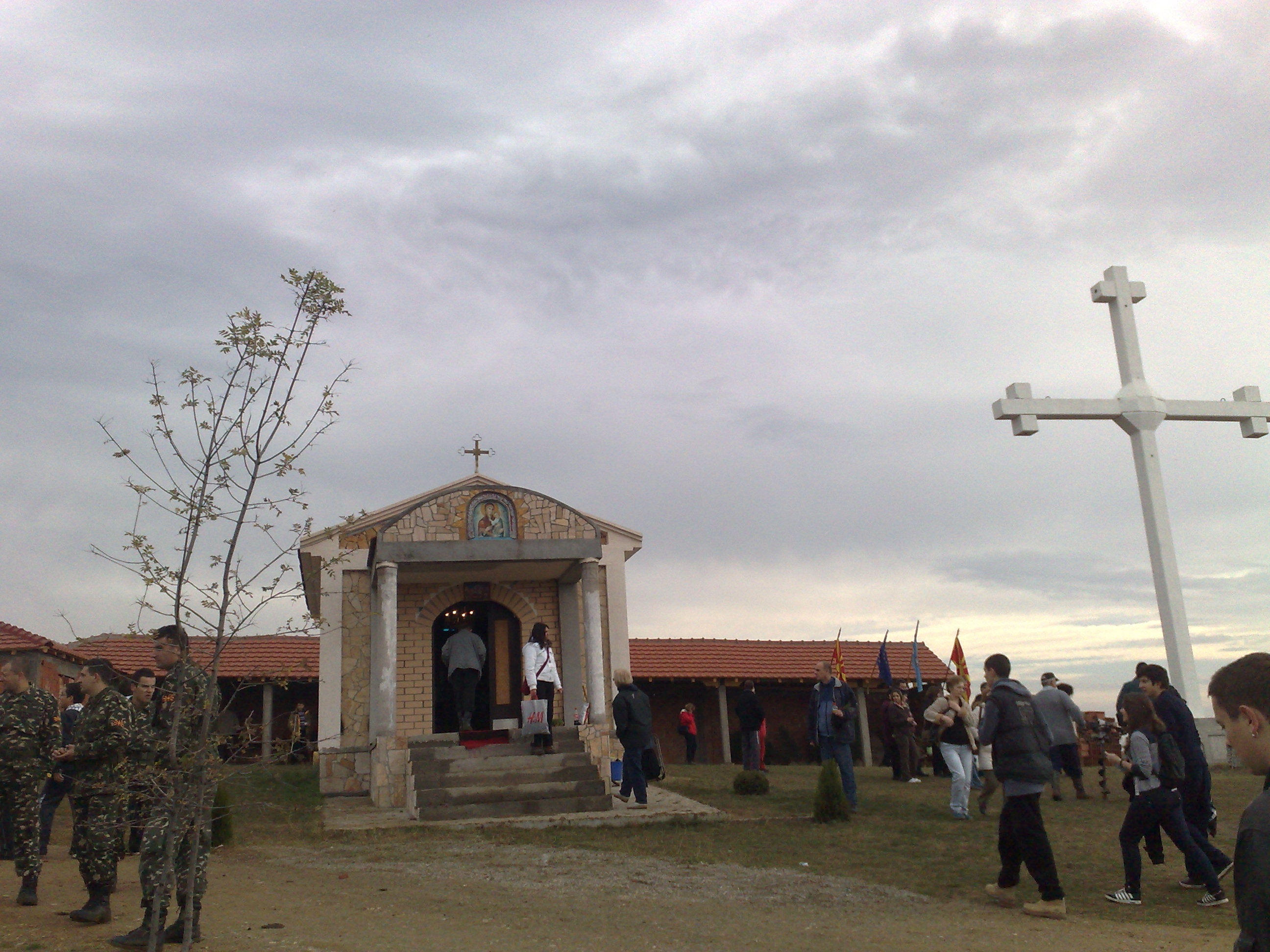 Church of Holly Mother of God near Rzanicino, Macedonia